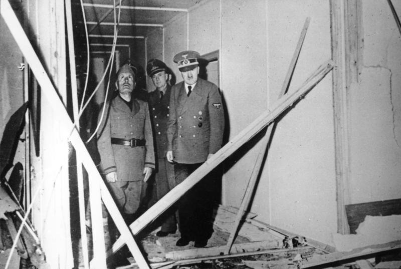 Benito Mussolini visits Hitler's headquarter Wolfsschanze near Rastenburg (Ketrzyn) in East Prussia in the day of 20 july attenat. The view of destroyed corridor of barrack (There is Dr Paul Schmidt - Mussolini's interpreter in the background).